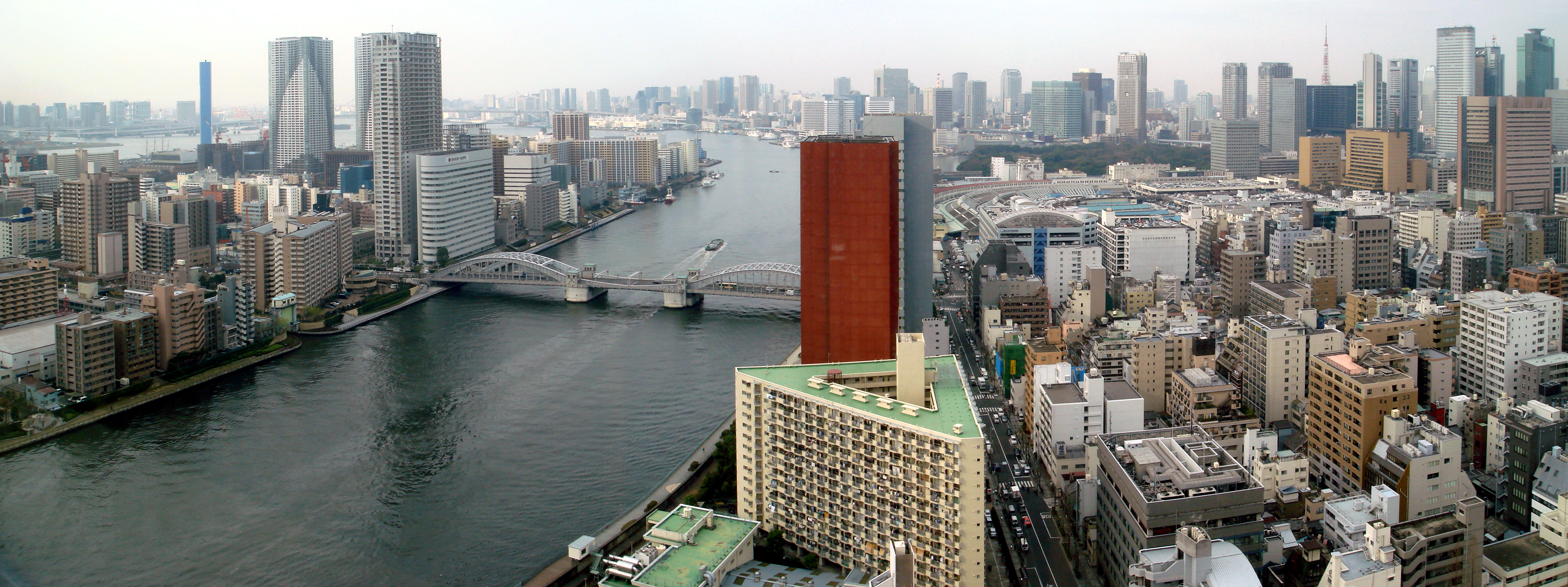 Facing southwest: The Sumida River enters the Tokyo Port region of Tokyo Bay. The bridge visible is the Kachidoki Bridge (Kachidoki Ohashi). To the left (east) of the river is the lower portion of Tsukishima (island neighborhood), Chūō Ward, Tokyo: the two twin towers on the island are The Tokyo Towers, a condominium complex. Further to the left (east) is the blue smokestack of the Chuo Incineration Plant on Harumi Island. On the top left horizon is Odaiba. To the right (west) is the Tsukiji neighborhood, with the famous Tsukiji fish market visible to the right of and behind the reddish building (it is the shape of a quarter-circle). The large garden behind the market are the Hamarikyu Gardens. The coffee-colored building to the right of Tsujkiji market (with the slanting bottom) is the headquarters of the Asahi Shimbun. The collection of modern skyscrapers immediately behind the Asahi Shimbun make up the Shiodome area; and behind those towers is the top of Tokyo Tower.